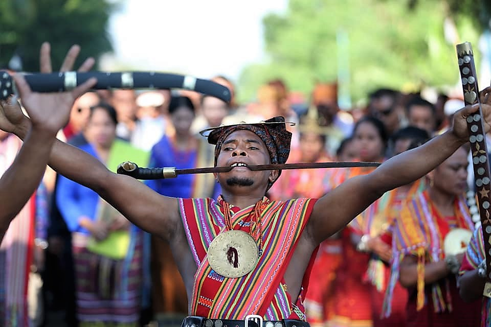 Dancer in Suai Vila, Covalima.